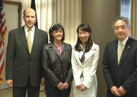 Ken Hayami, Executive Director of the Japan Committee for UNICEF, and Agnes Chan, National Ambassador of the Japan Committee for UNICEF, met John Roos, Ambassador to Japan, and Susan Roos, Partner of Cook Roos Wilbur LLP, at the Embassy of the United States in Minato Ward, Tōkyō Metropolis, on February 25, 2010.